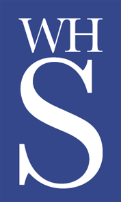 The logo of British High Street shop WHSmith.